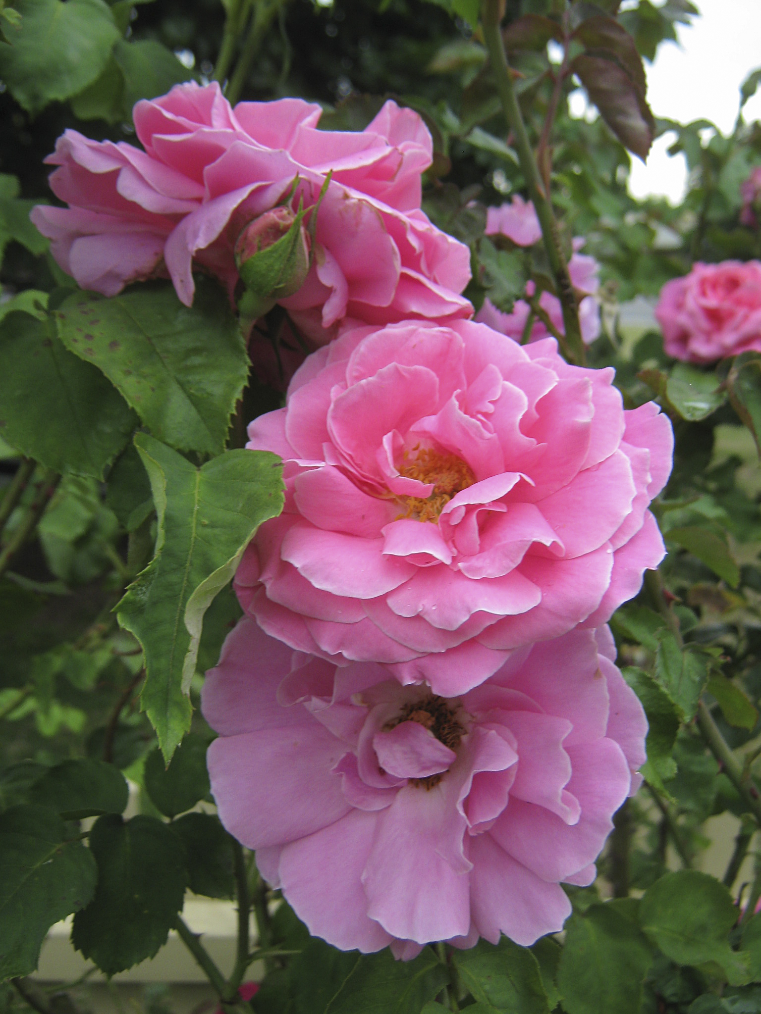 Rose 'Mrs Norman Watson', Hybrid Tea Climber by Alister Clark 1930; photographed in the Alister Clark Memorial Rose Garden, Bulla, Victoria